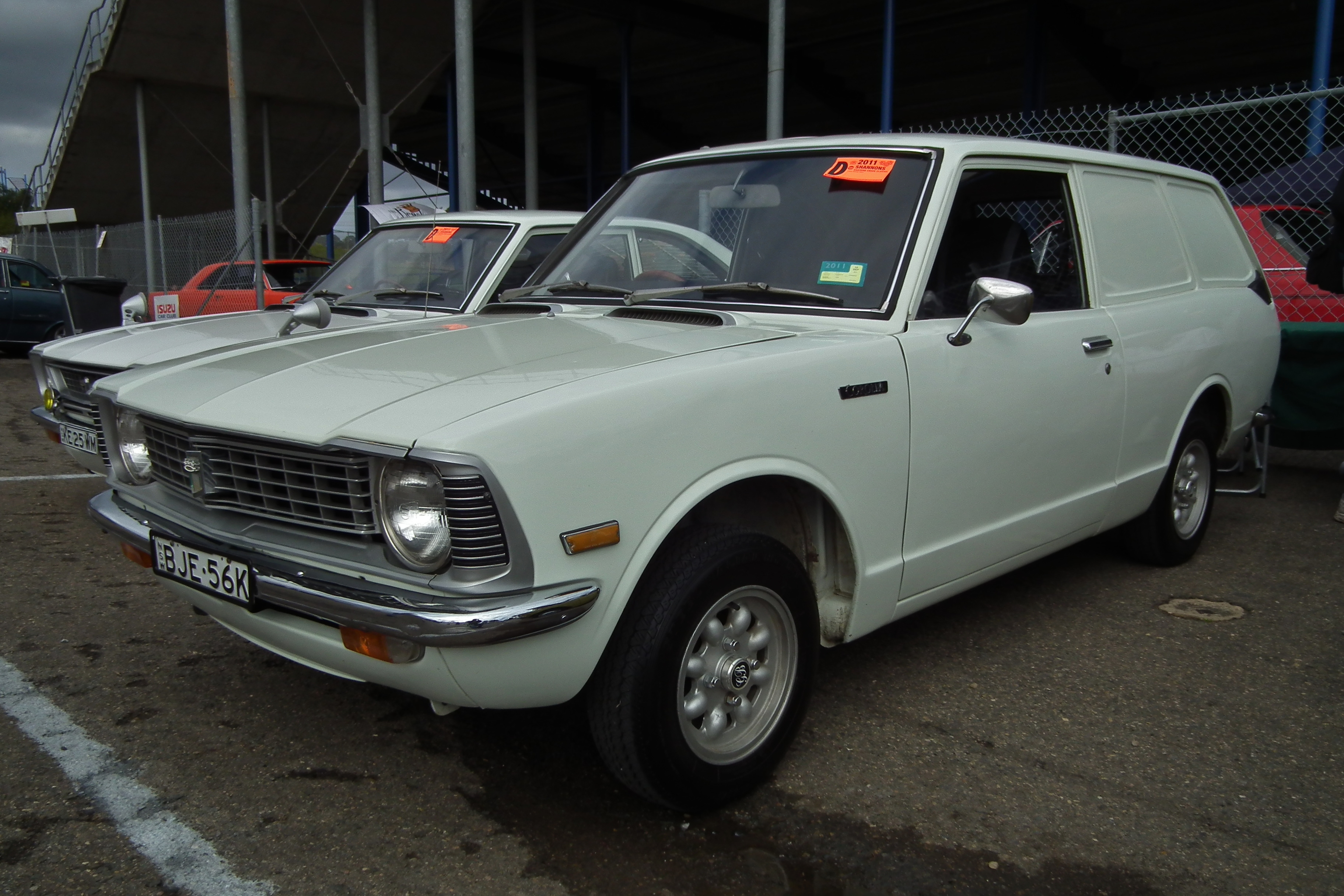 1973 Toyota Corolla panel van. Taken at Shannon's Eastern Creek Classic 2011, held at Eastern Creek Raceway Sydney.